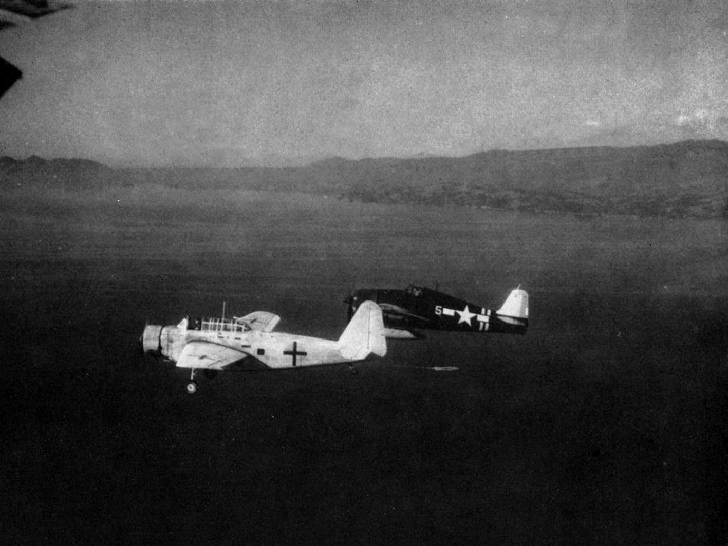 A U.S. Navy Grumman F6F-5 Hellcat of Fighting Squadron 40 (VF-40) escorts a Japanese Kyūshū K11W Shiragiku after the Japanese surrender, in August 1945. VF-40 was assigned to Escort Carrier Air Group 40 (CVEG-40) aboard the escort carrier USS Suwannee (CVE-27) from 8 February to 2 September 1945. Note the geometric identification symbol on the Hellcat.